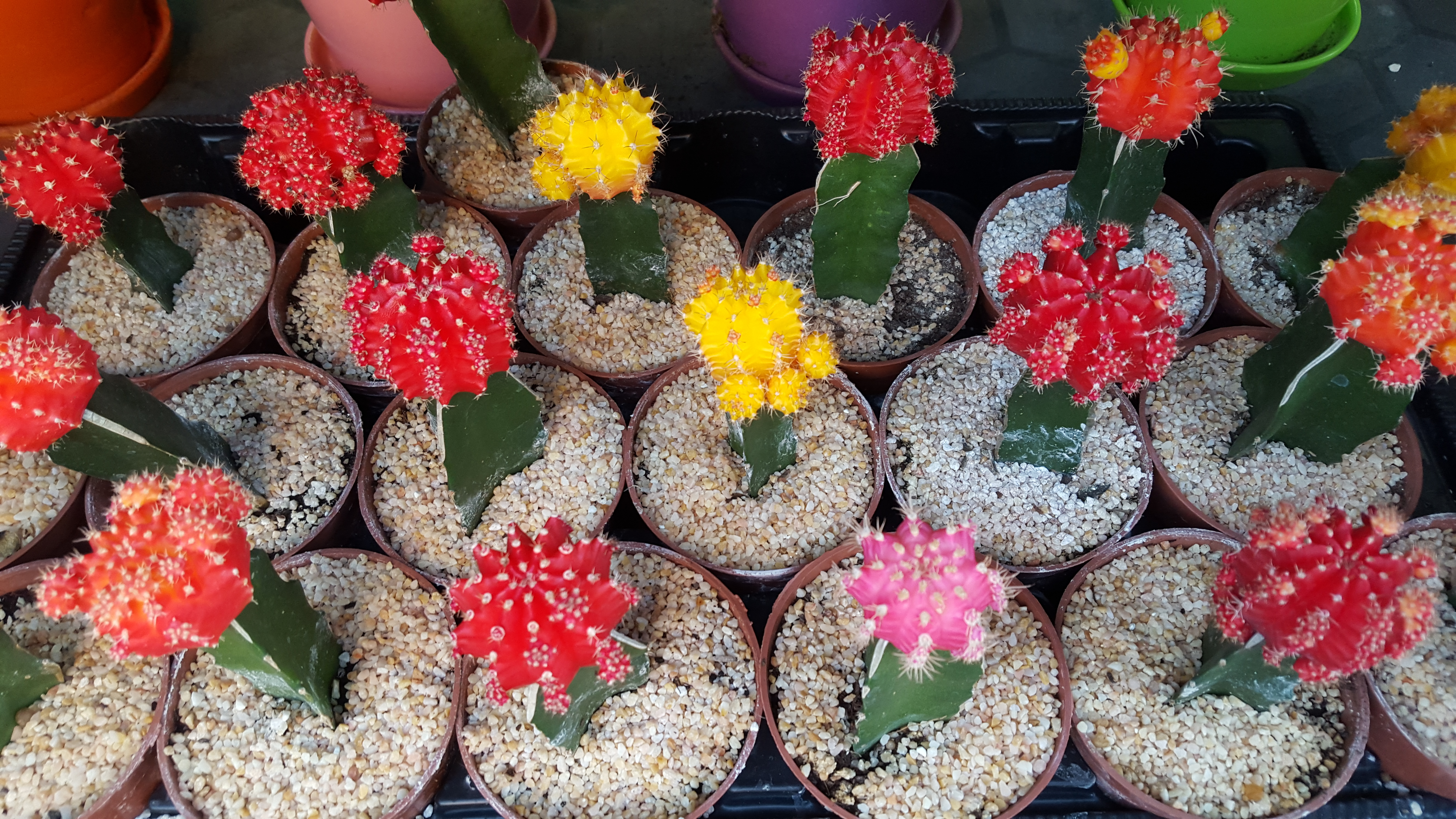 Cactus (shop in Jaffa)